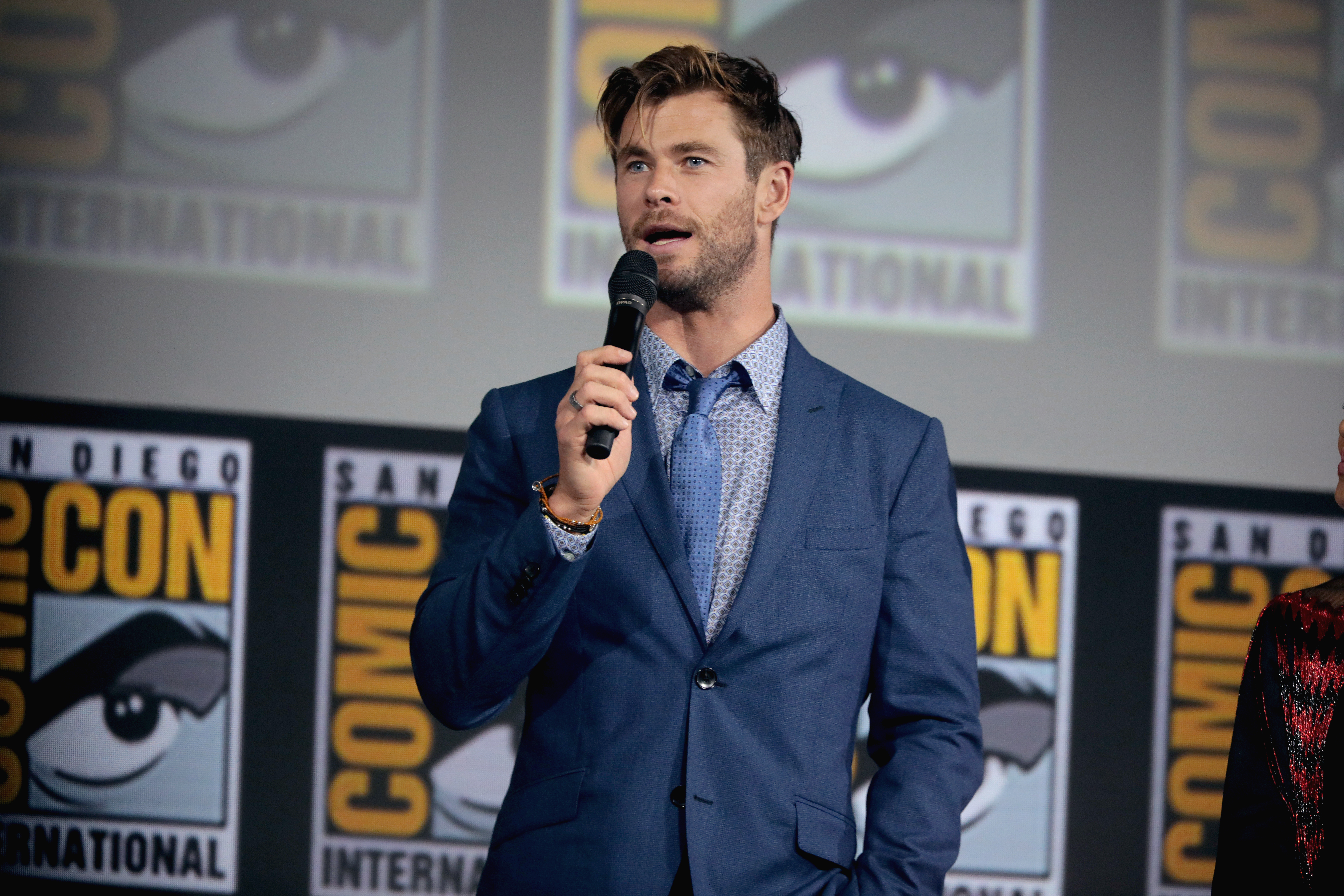 Chris Hemsworth speaking at the 2019 San Diego Comic Con International, for "Thor: Love and Thunder", at the San Diego Convention Center in San Diego, California.